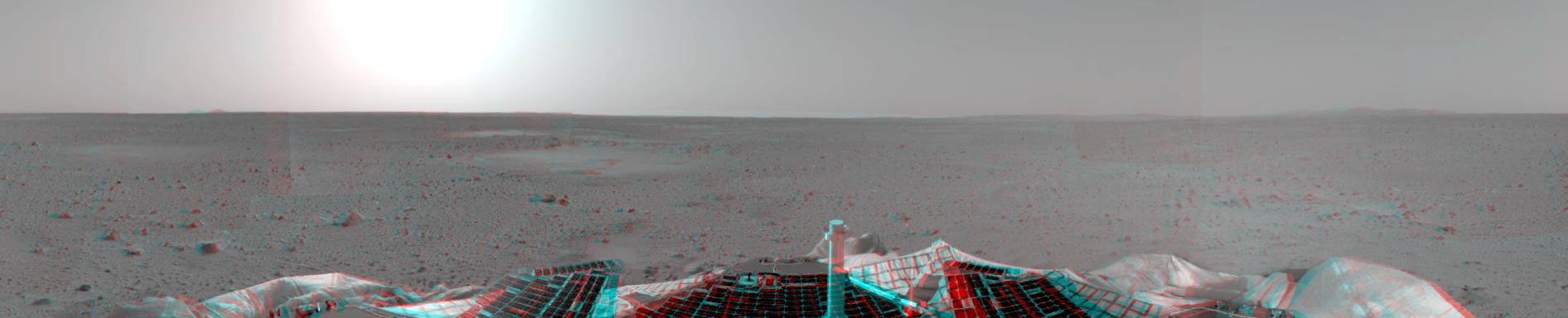 "Sleepy Hollow," a shallow depression in the Mars ground near NASA's Spirit rover, may become an early destination when the rover drives off its lander platform in a week or so.